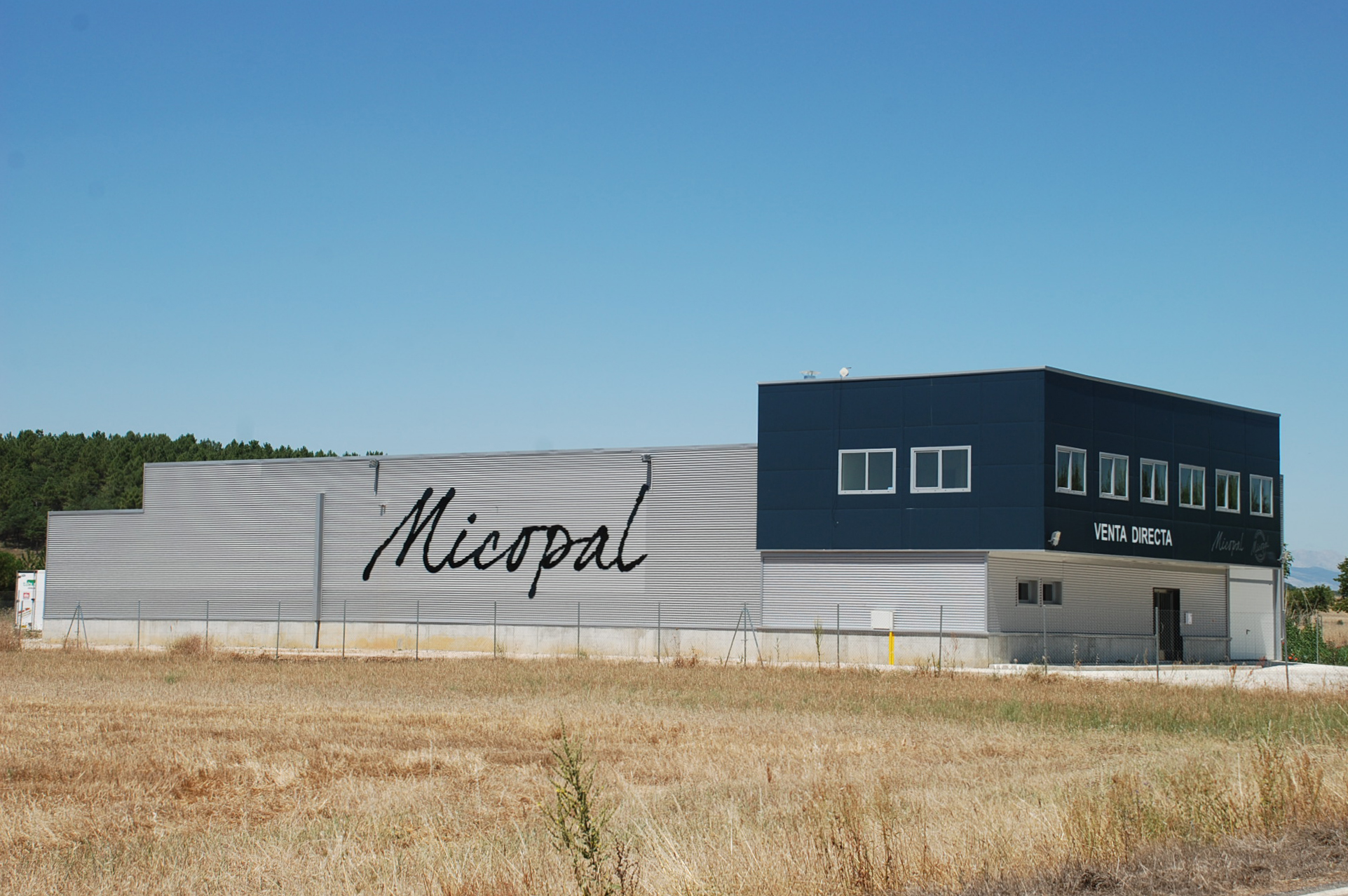 Micological processing factory in Arenillas de San Pelayo (Palencia, Castile and León).